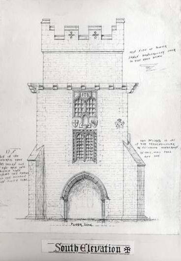 Aslackby Preceptory Tower at Temple Farm, drawn in 1892 before it collapsed